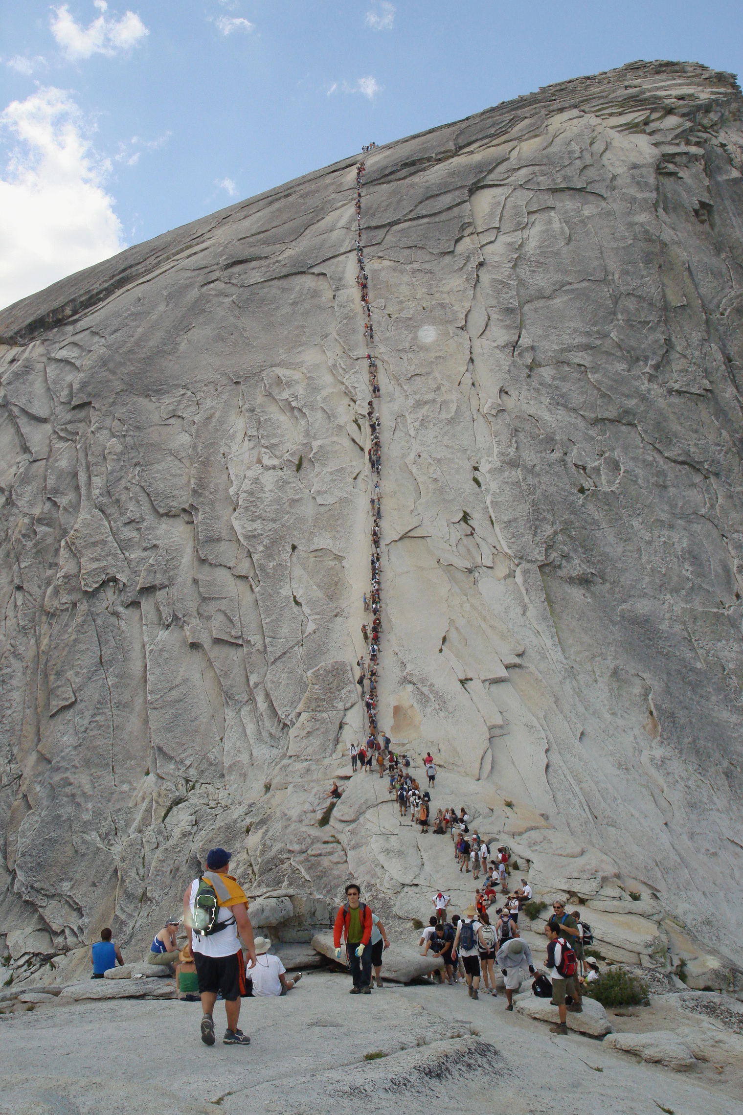 Near the base of the climbing cables leading to the summit of Half Dome in Yosemite National Park, California.